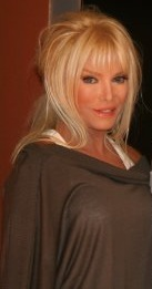 Cropped version picture of Ajda Pekkan and Cem Taşkıran.